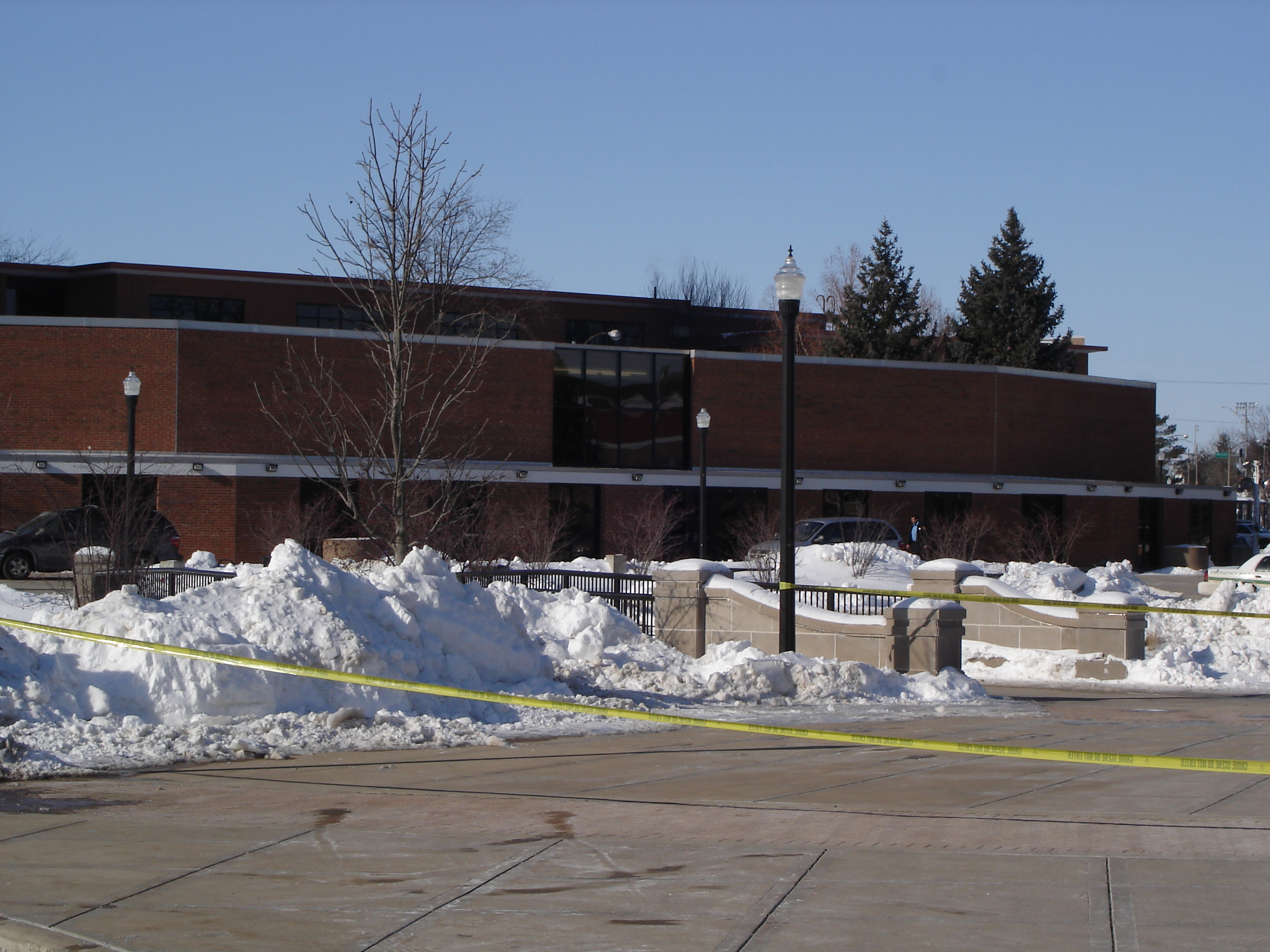 Entrance to Cole Hall the morning after the Northern Illinois University shooting.